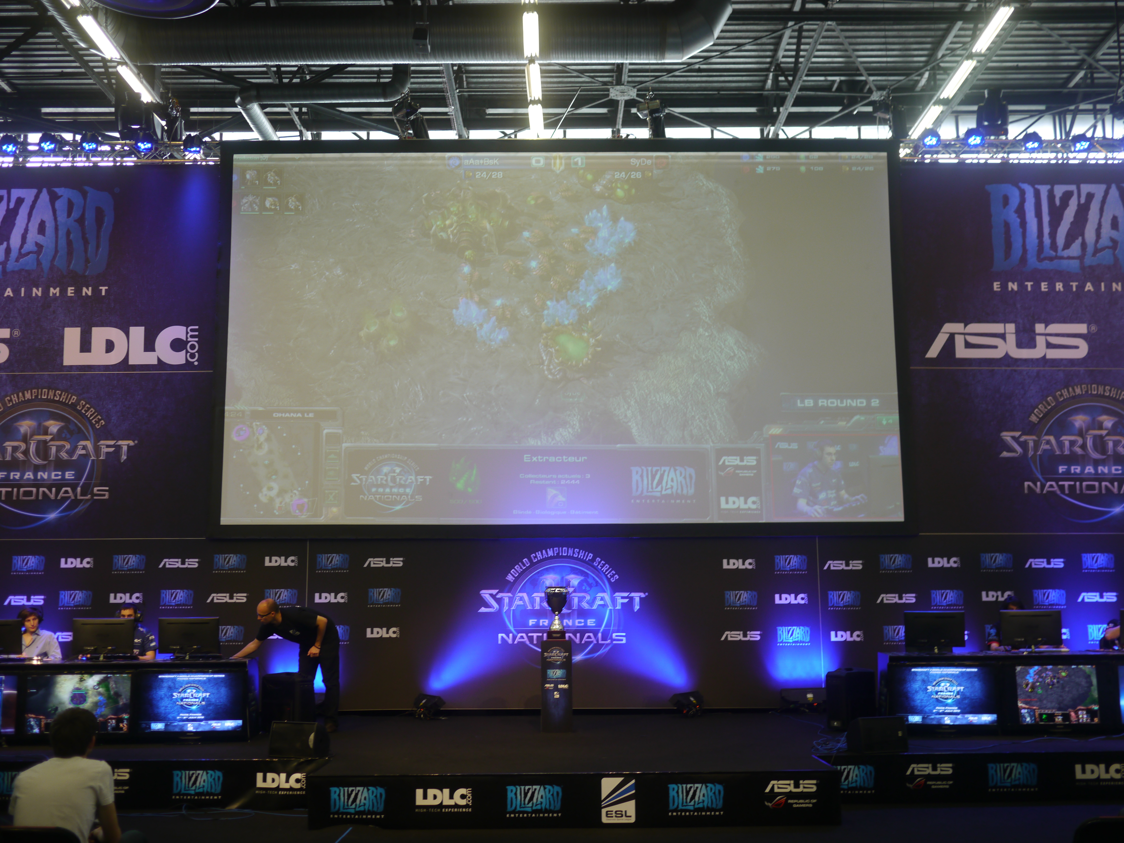 Japan Expo Festival, 13th impact